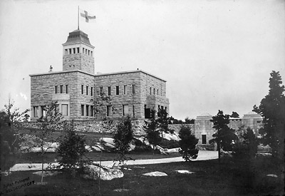 Kultaranta, the summer palace of the president of Finland, ca. 1920, in Naantali, Finland